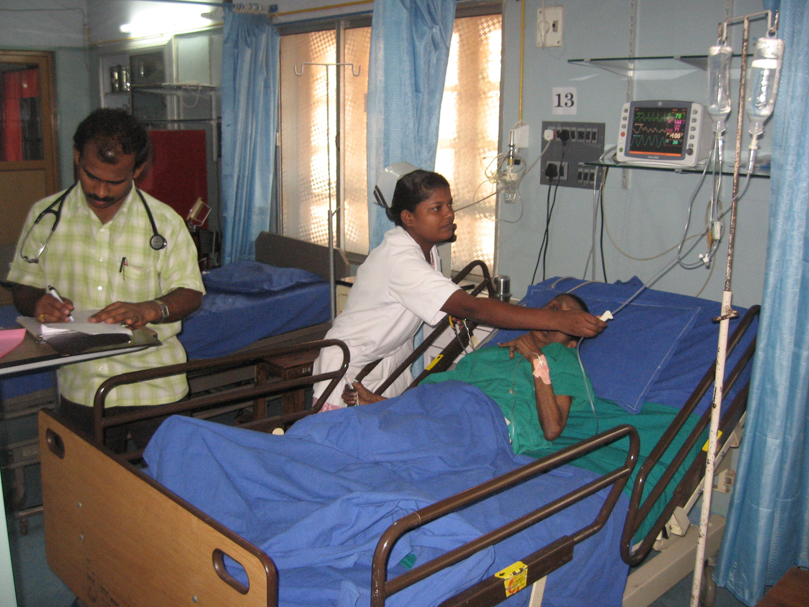 ICU @ SDA Hospital